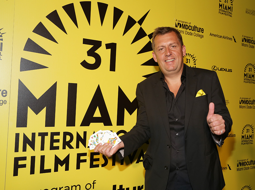 GLOBAL PLAYER director Hannes Stöhr at Regal South Beach Cinemas for the 2014 Miami International Film Festival Photo by: Alberto Tamargo